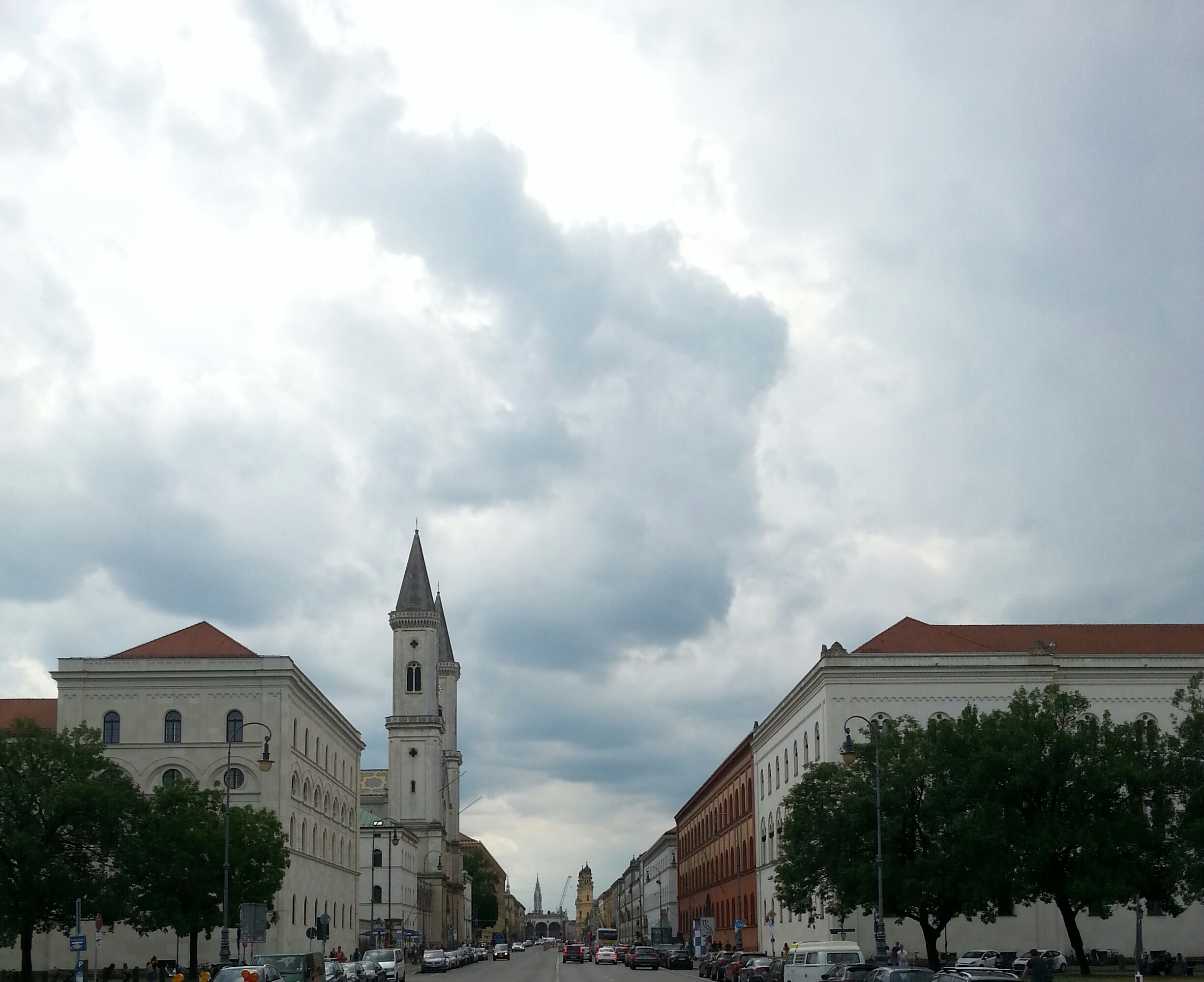 Ludwigstraße in Munich, at the end the Odeonsplatz with the Field Marshal’s Hall